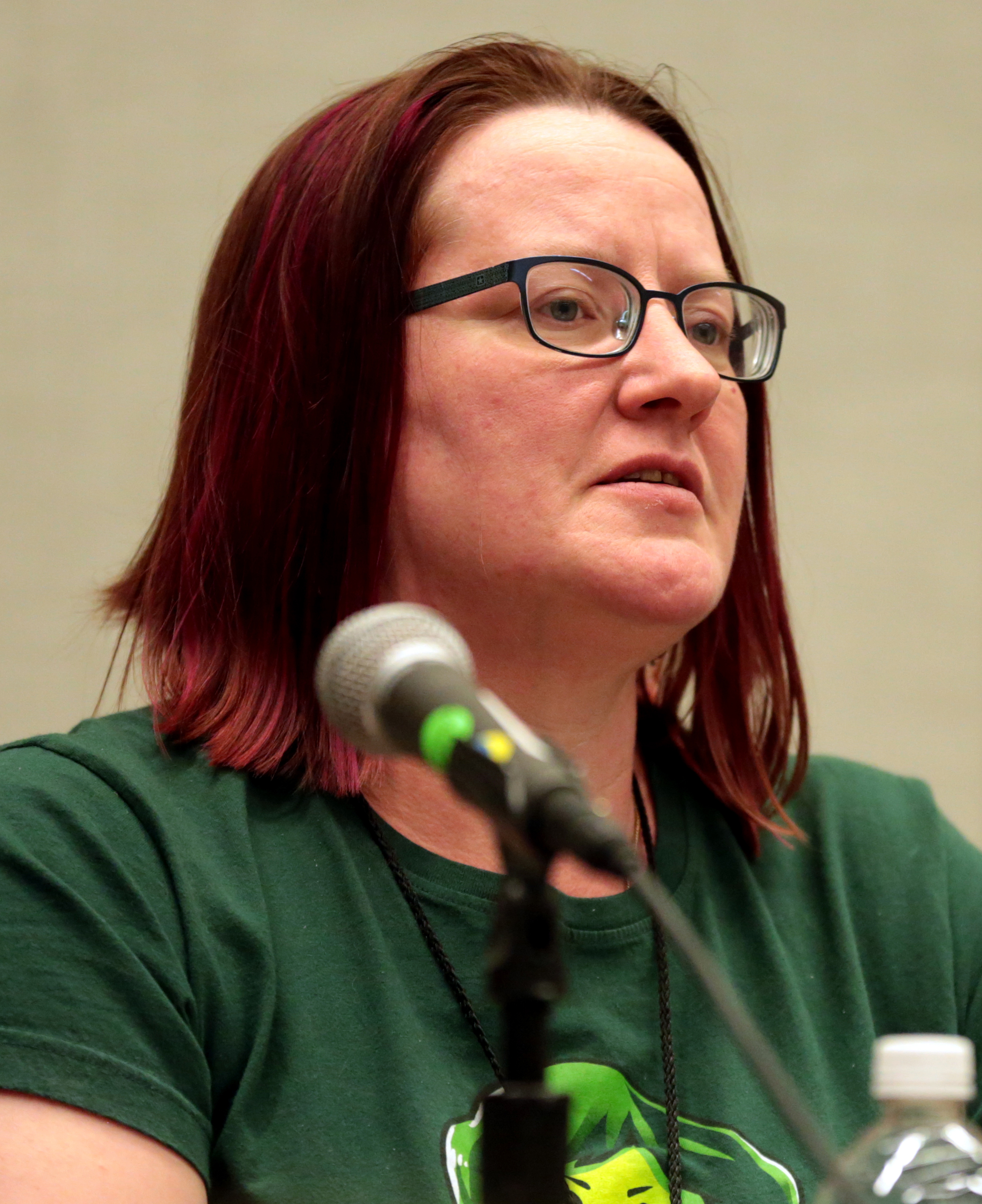 Elizabeth Bear speaking at the 2017 Phoenix Comicon in Phoenix, Arizona.